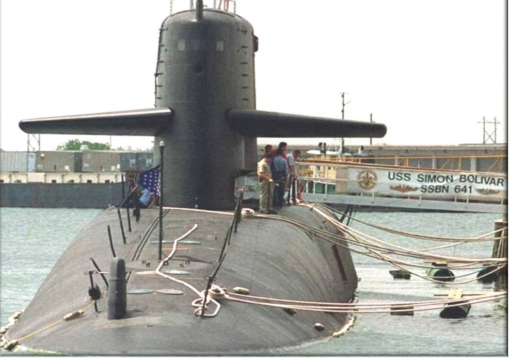 Bolivar Dockside